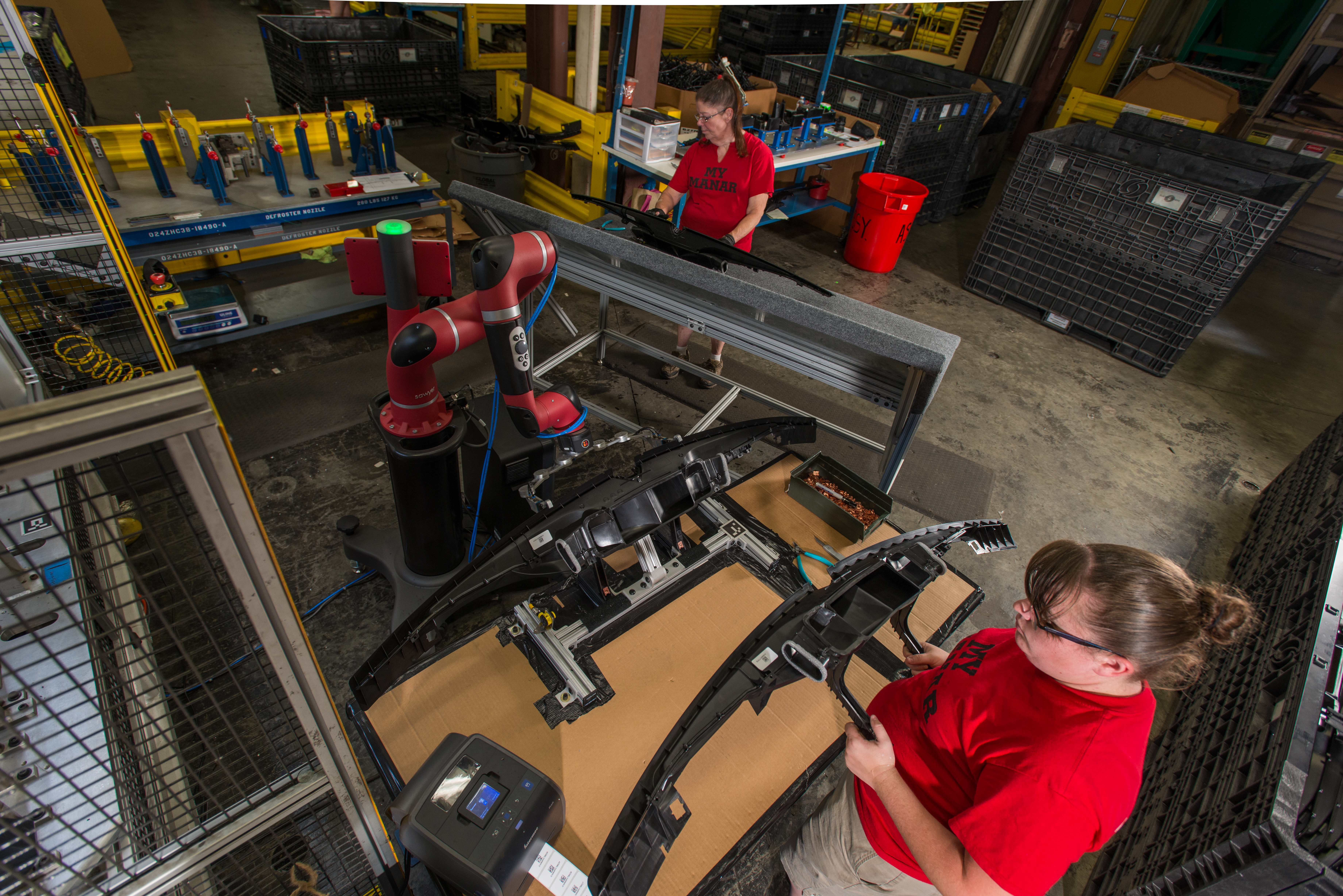 Collaborative robot Sawyer on the factory floor at Tennplasco in Lafayette, TN.